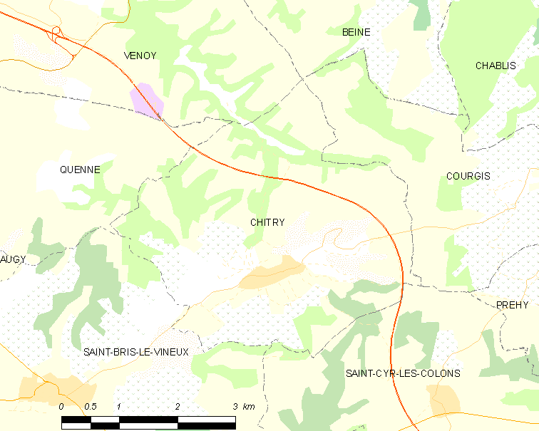 Map of French municipality Chitry